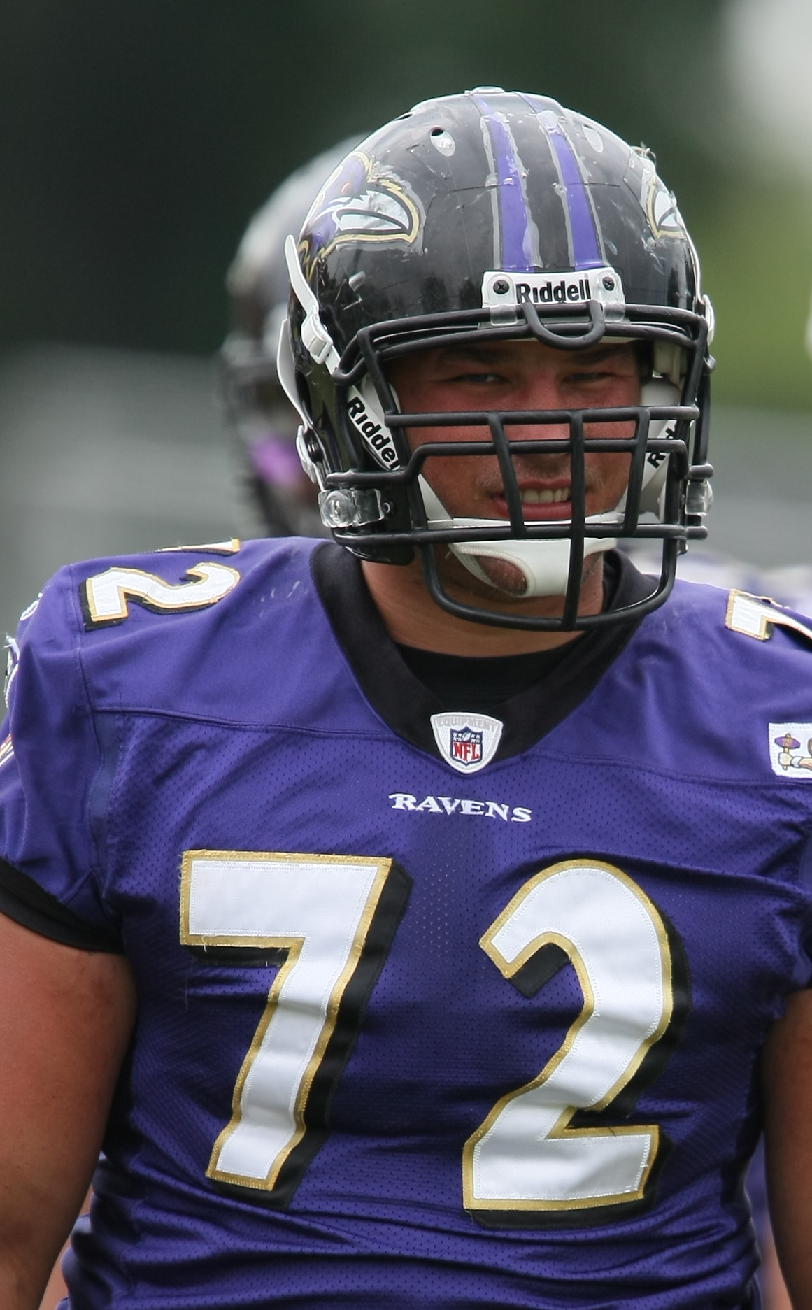 Bryan Mattison at Baltimore Ravens Training Camp on August 5, 2009